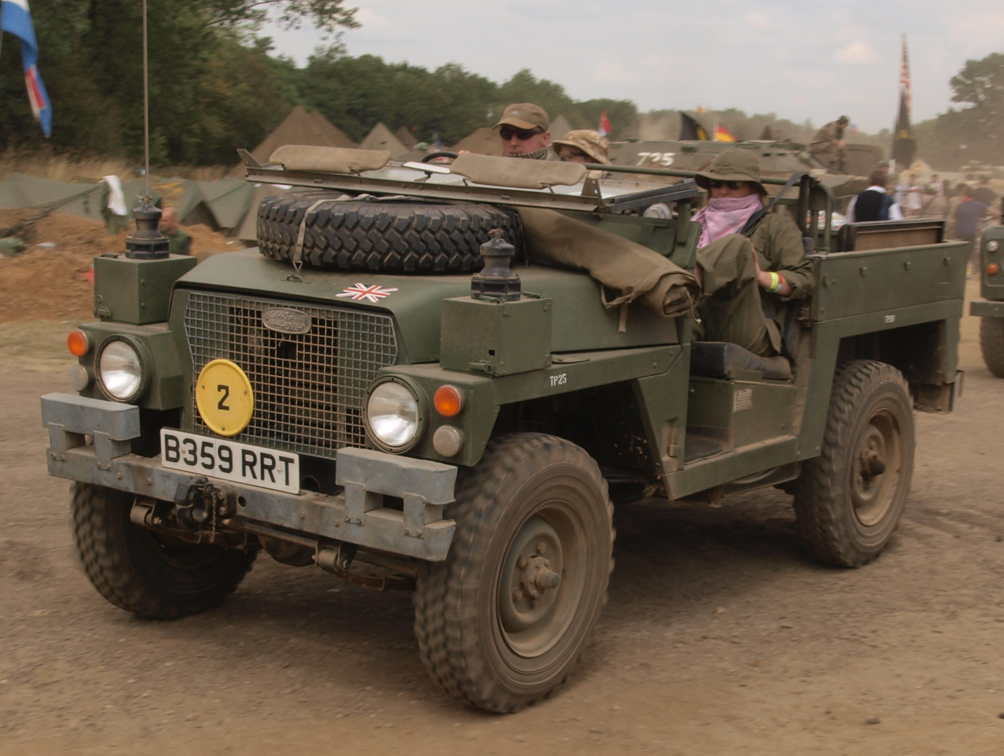 Land Rover, licence registration 'B359 RRT'